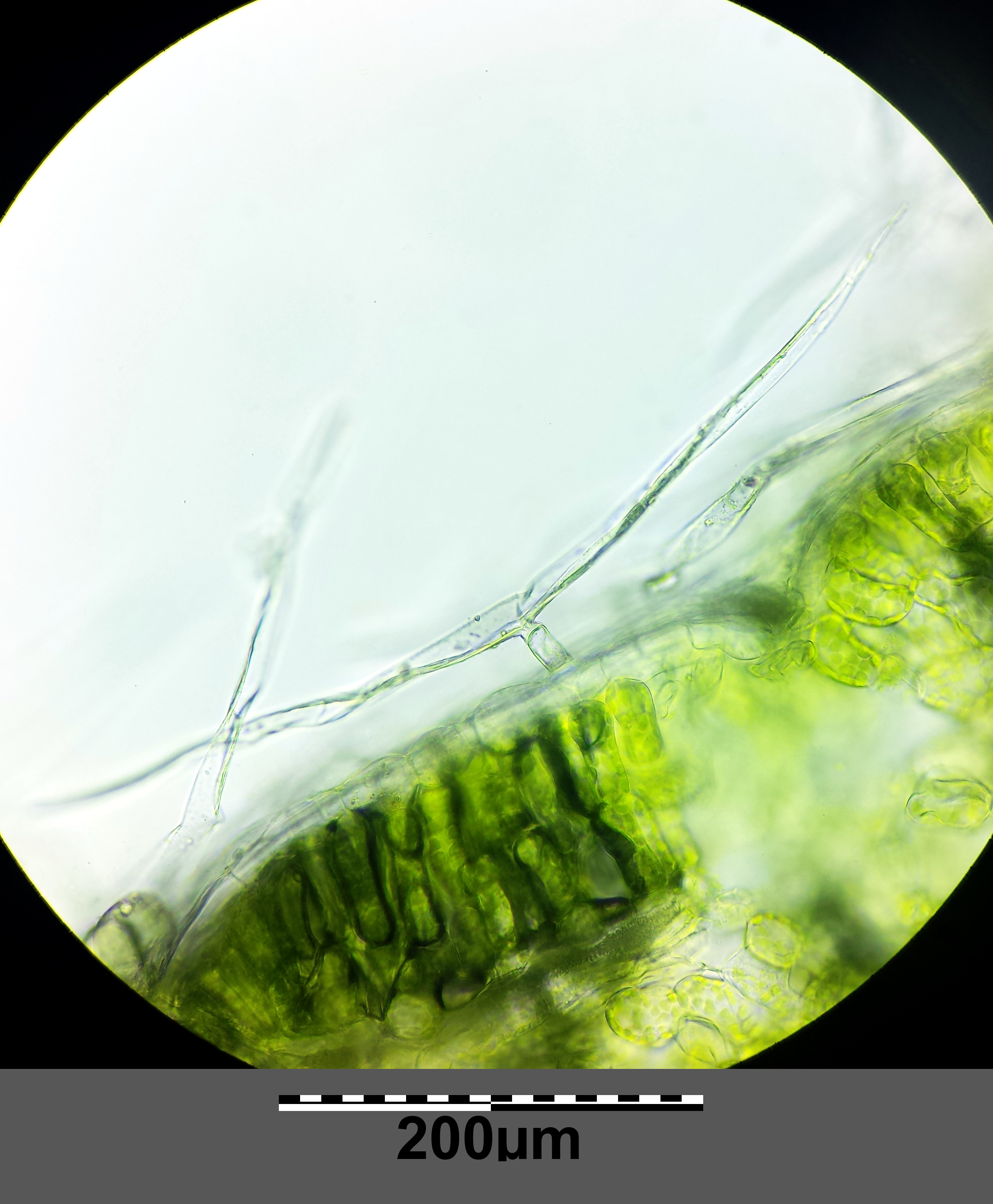 Leaf cross section with T shaped hair Taxonym: Artemisia absinthium ss Fischer et al. EfÖLS 2008 ISBN 978-3-85474-187-9 Location: near Niederhollabrunn, district Korneuburg, Lower Austria - ca. 350 m a.s.l. Habitat: vineyard